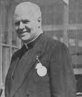 Rev. J. Hunter Guthrie, S.J., president of Georgetown University, at the university's board of governors' meeting in fall 1949 in Providence, Rhode Island